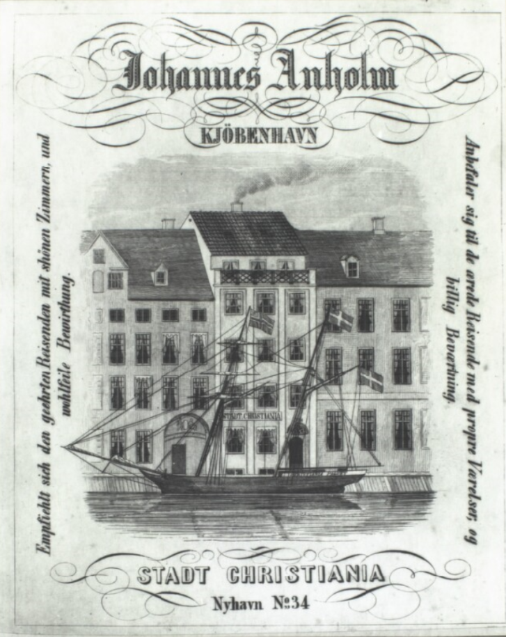 Poster for Nyhavn 67 in Copenhagen, Denmark